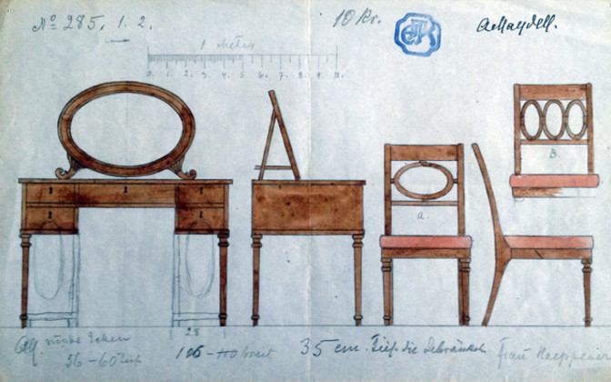 Anna von Maydell: Furniture design for Atelier für Kunstgewerbe, Tallinn, c. 1905